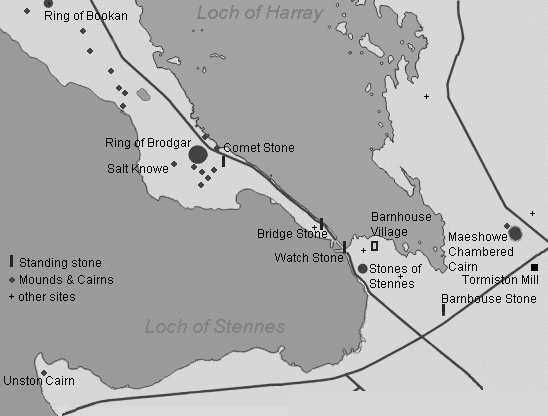 Main Features within the UNESCO World Heritage Site "The Heart of Neolothic Orkney"